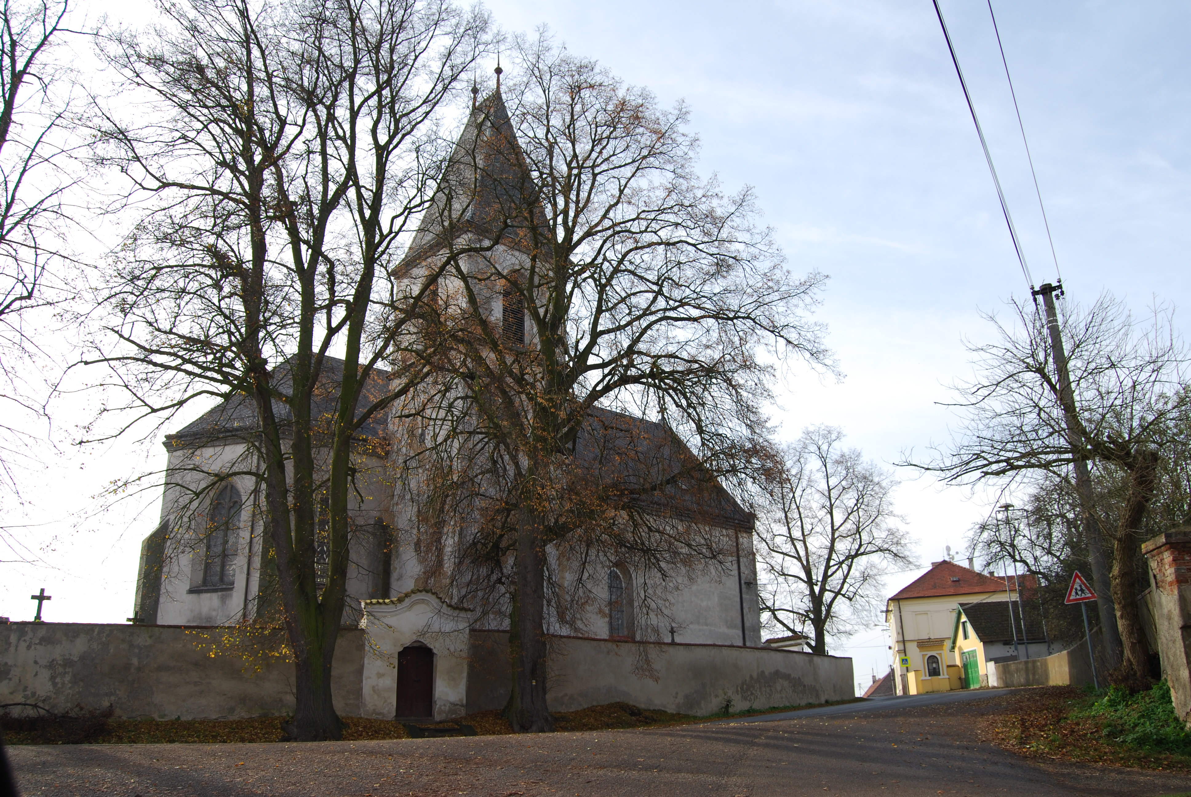 Bubovice, parf of Volenice village in Příbram District, Czech Republic. Church